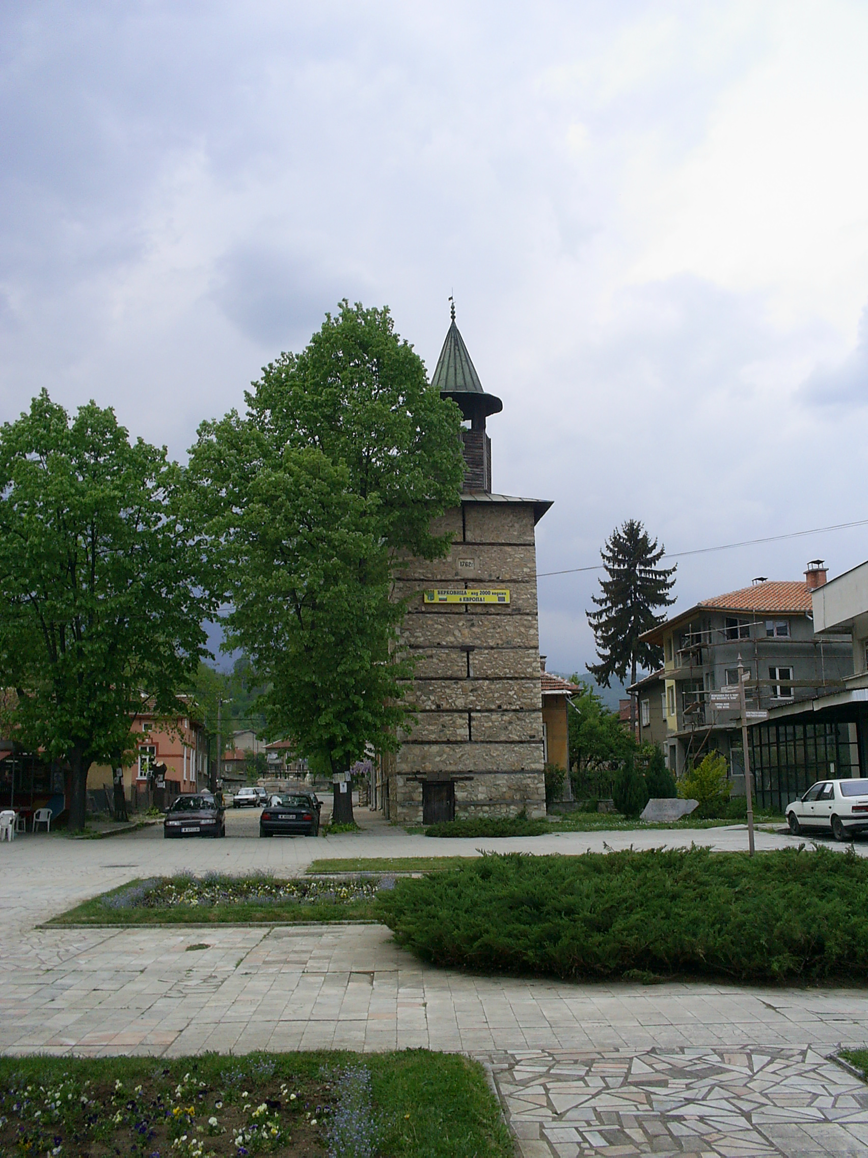 Central part of Berkovitsa, Bulgaria